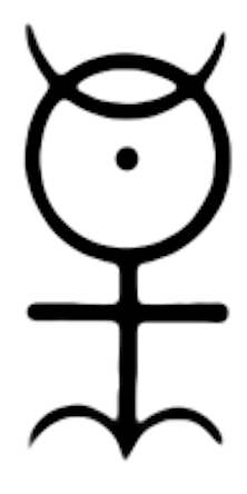 PNG version of John Dee's Monas Hieroglyphica